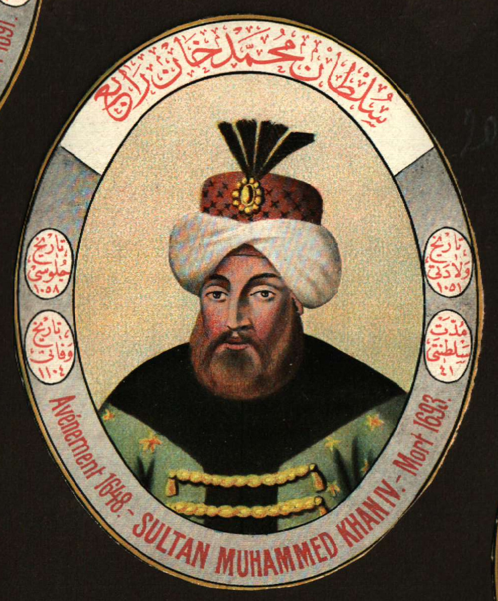 Mehmed IV